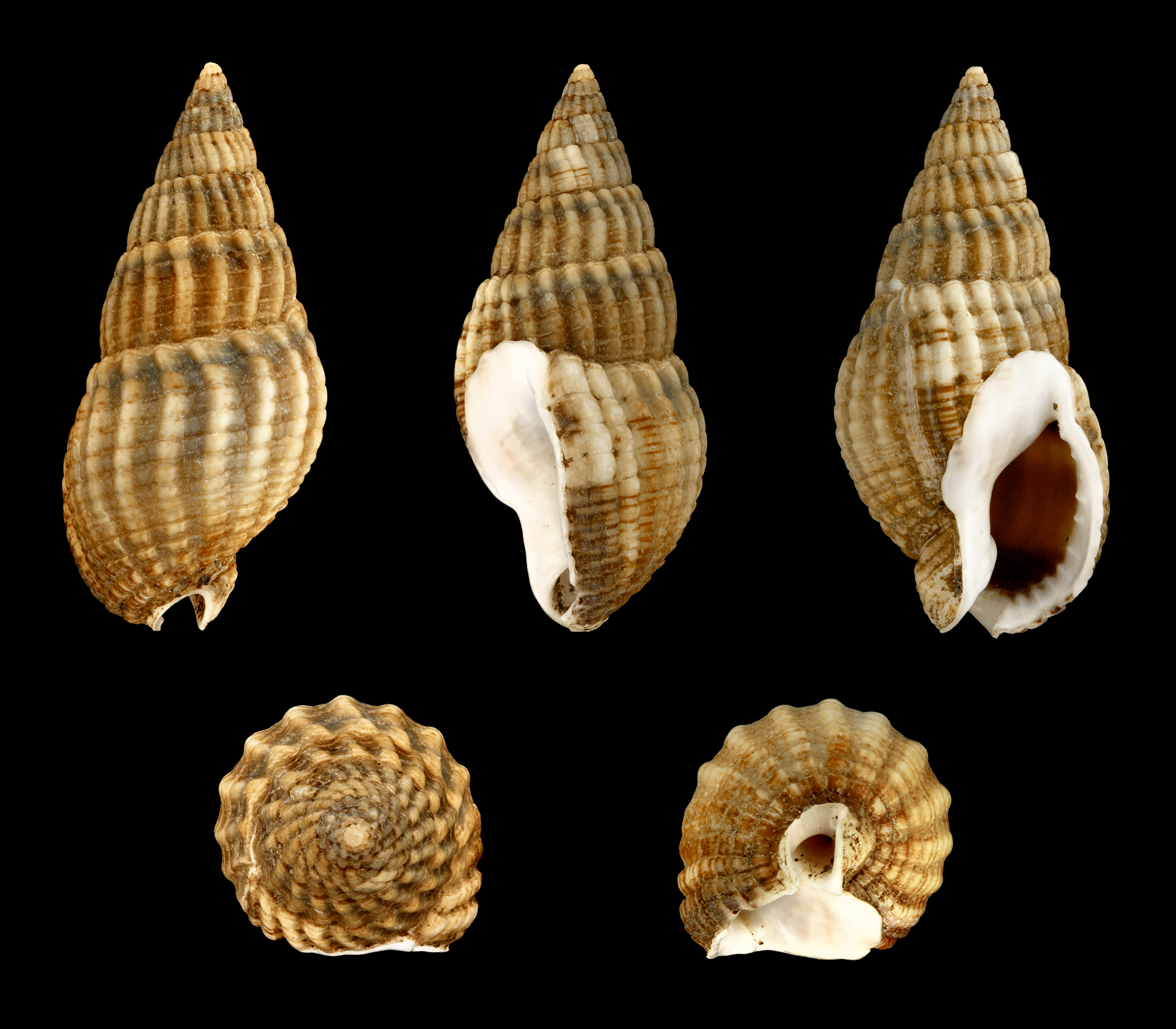 Tritia reticulata (Linné, 1758), Netted Dog Whelk; Length 3.0 cm; Originating from Port Leucate, France; Shell of own collection, therefore not geocoded. Dorsal, lateral (right side), ventral, back, and front view.